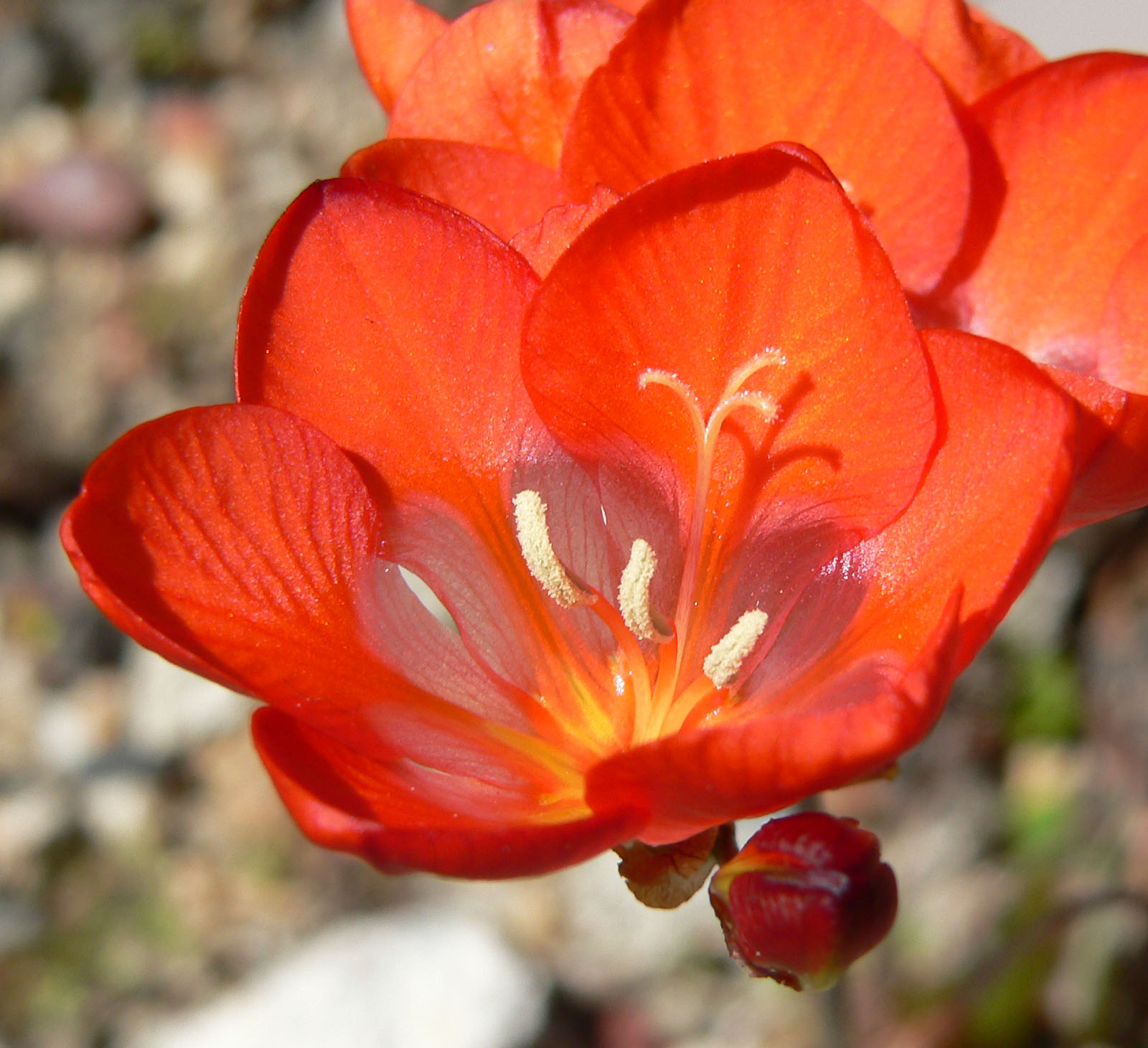 Tritonia crocata (labelled T. hyalina) at the University of California Botanical Garden, Berkeley, California